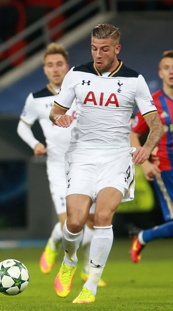 Alderweireld in action against CSKA Moscow during a 2016 Champions League match.